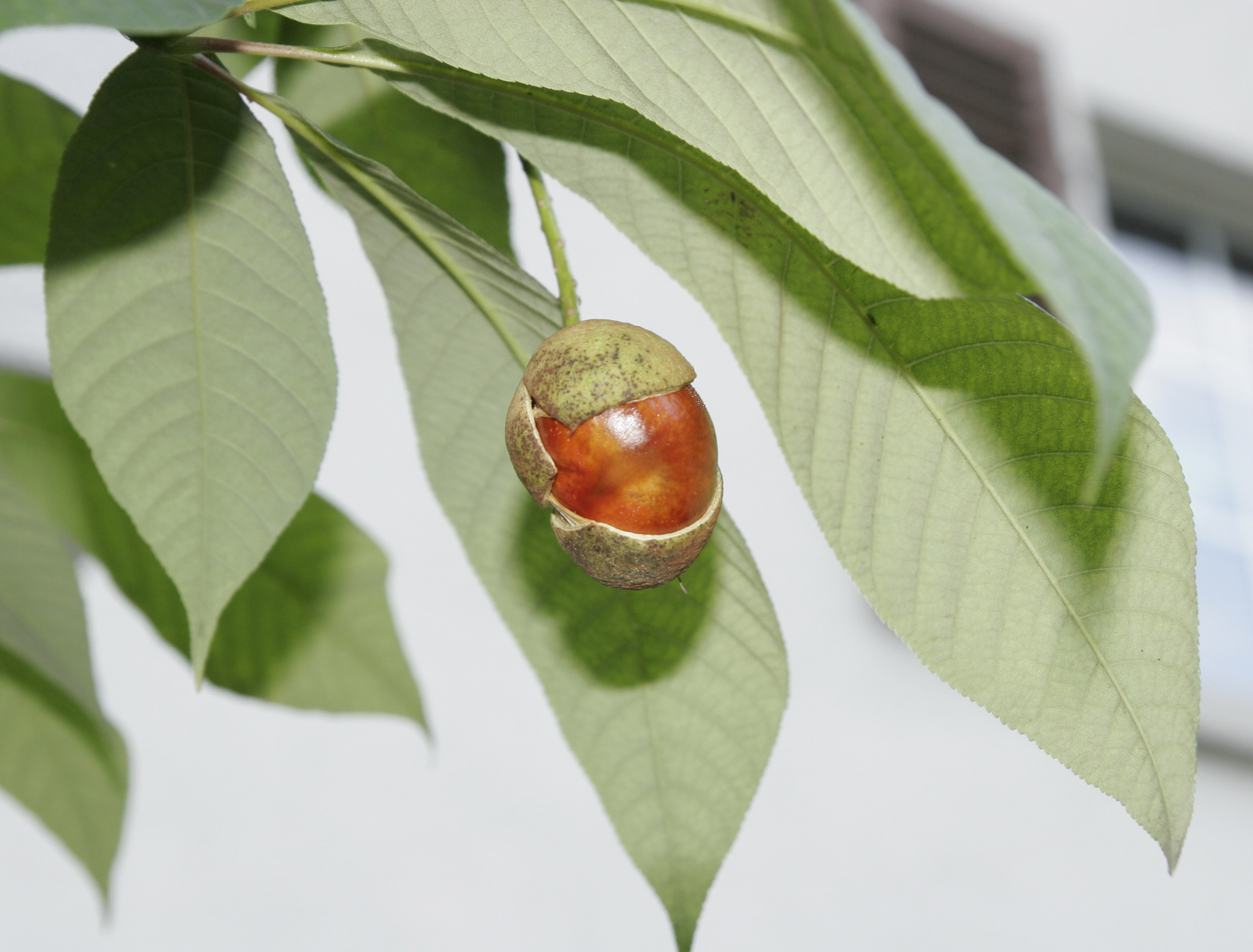 Bottlebrush Buckeye (Aesculus parviflora), located in Germany (Bensheim, Hesse), with nut